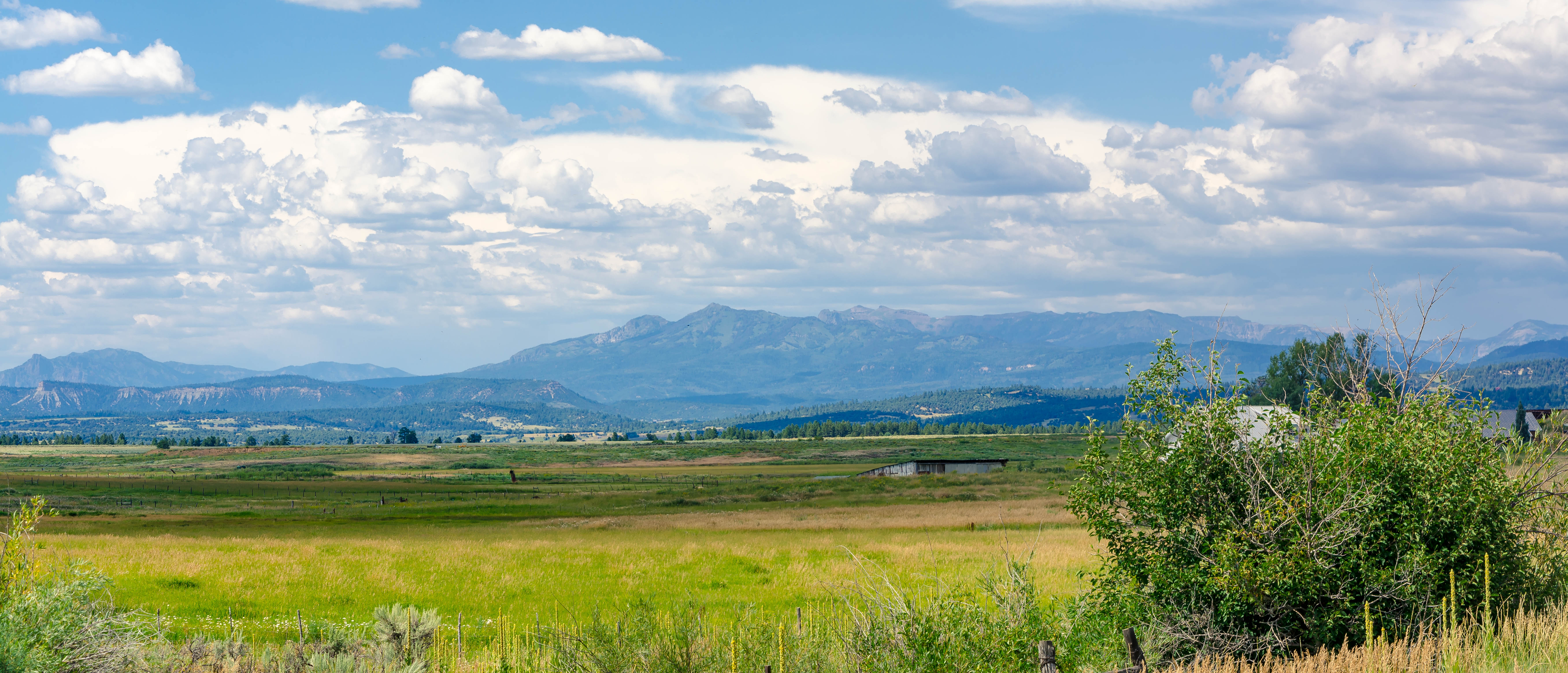 View of the Chama Valley from Ensenada, NM.